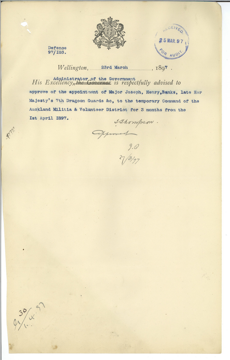 Date: 23rd March, 1897. From: Administrator of the Government. Subject: Appointment of Major Joseph Henry Banks to temporary command of the Auckland Militia and Volunteer District from 1st April, 1897. Taken from personnel file (1899 - 1902). Archives New Zealand reference: AABK 18805 W5515 64 / 0006235